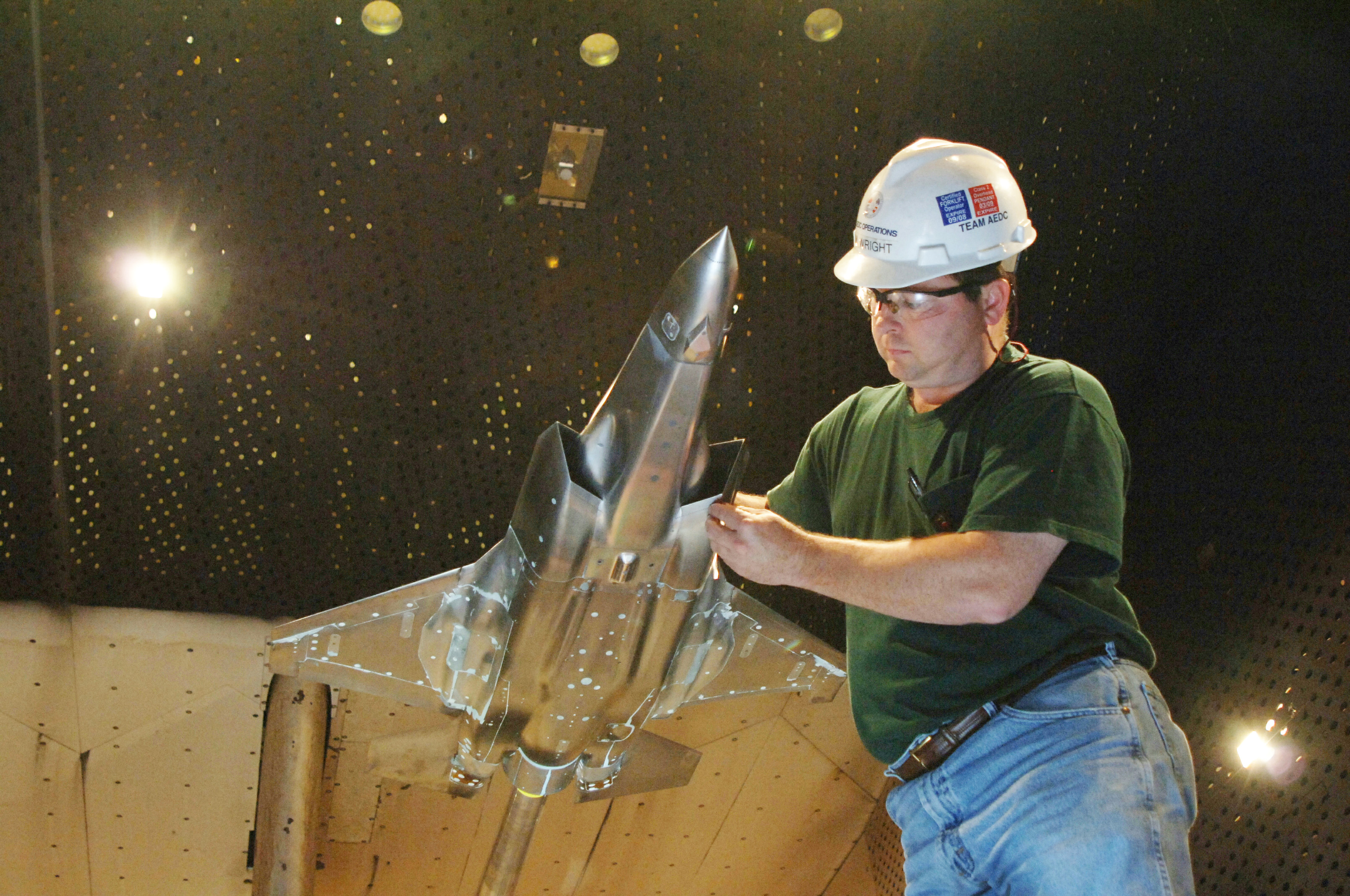 Tim Wright examines an F-35 LIghtning II Joint Strike Fighter model in the Arnold Engineering Development Center's 16-foot transonic wind tunnel at Arnold Air Force Base, Tenn. The information from testing will go into a database to refine and validate the aircraft designs for flight testing.